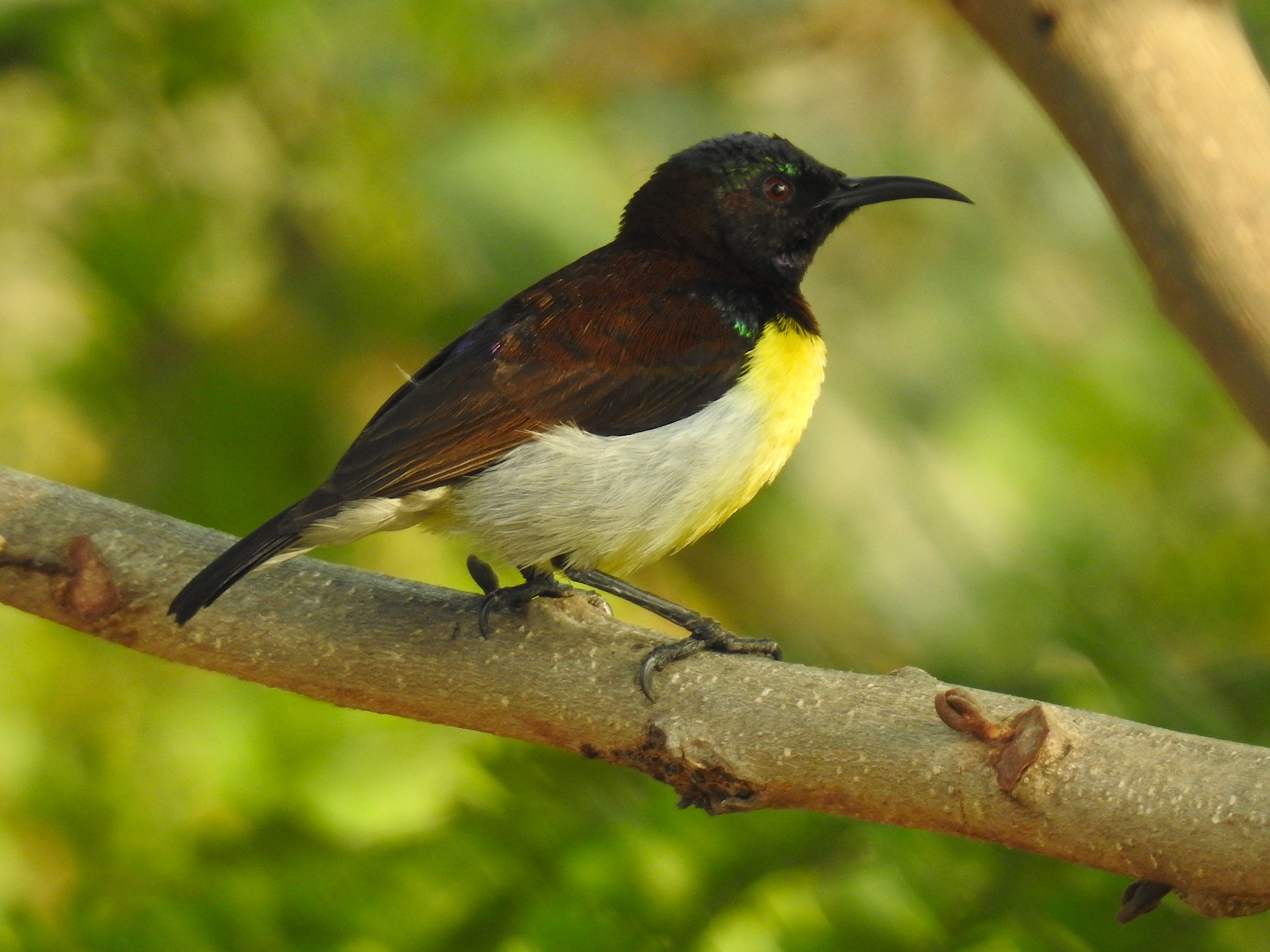 Male Purple-rumped sunbird in empty backyard plot in Judicial Layout. 29 March 2016